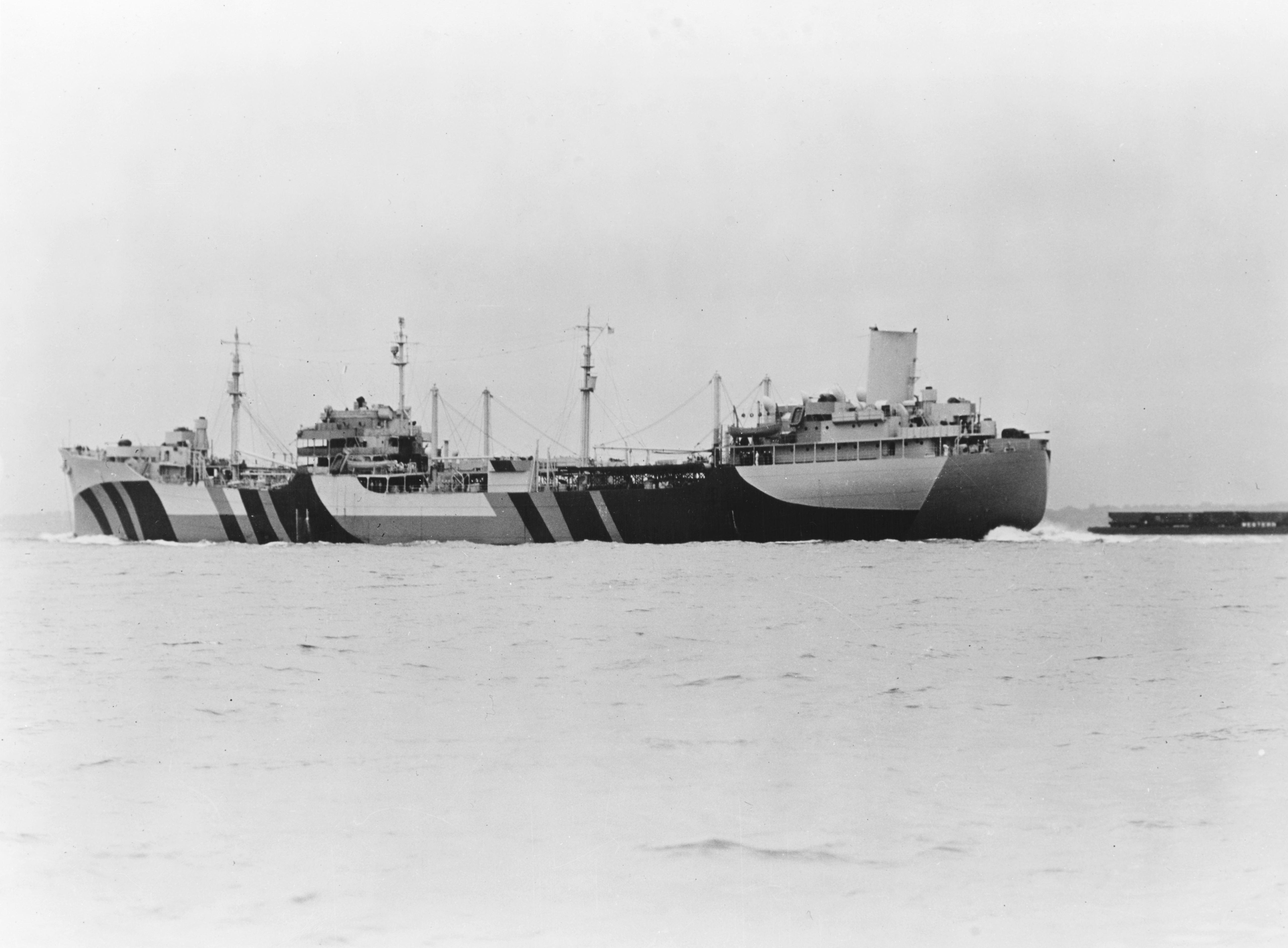 The U.S. Navy fleet oiler USS Mississinewa (AO-59) underway, circa in May 1944. She is painted in Camouflage Measure 32, Design 3AO.